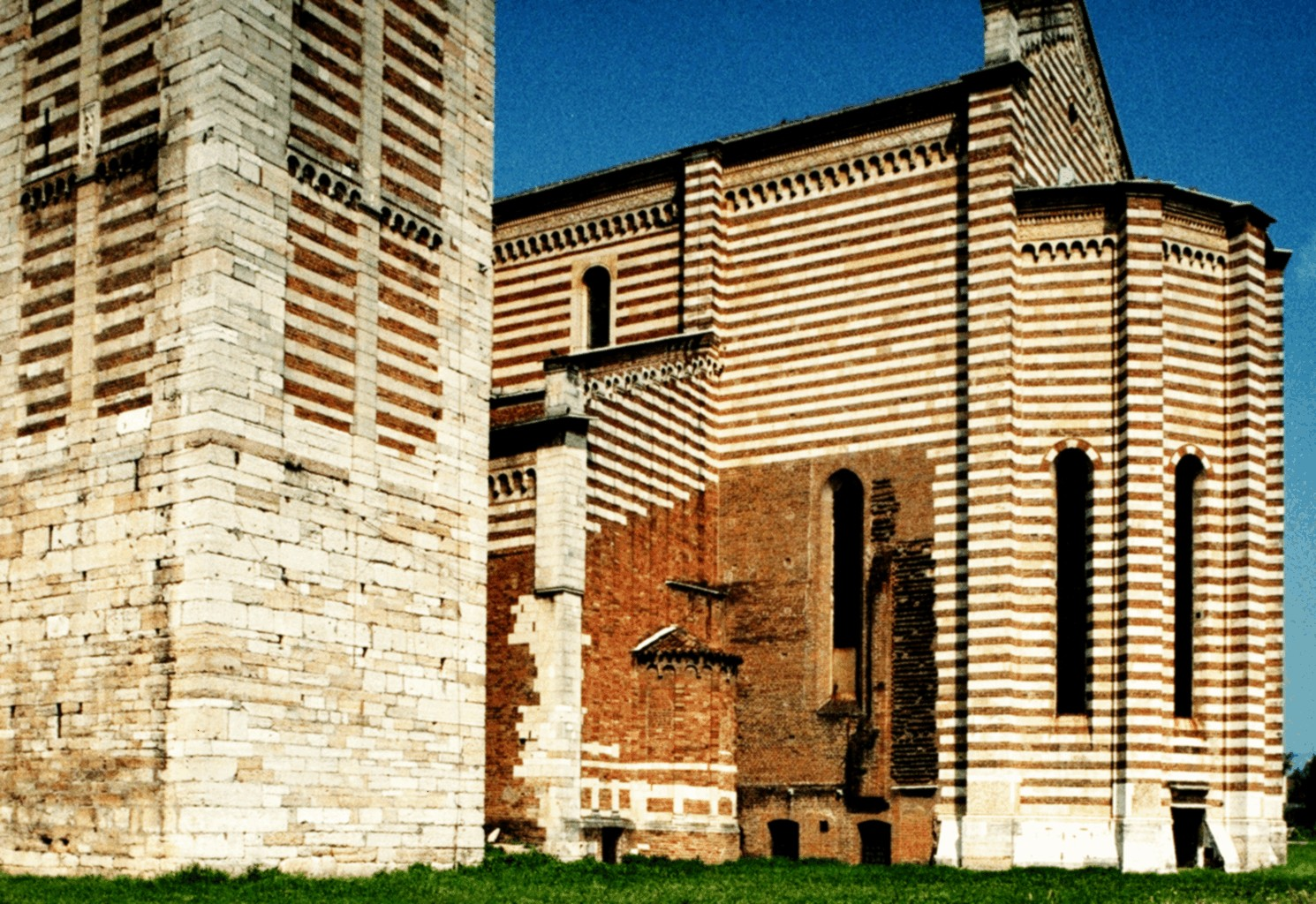 San Zeno, the eastern part